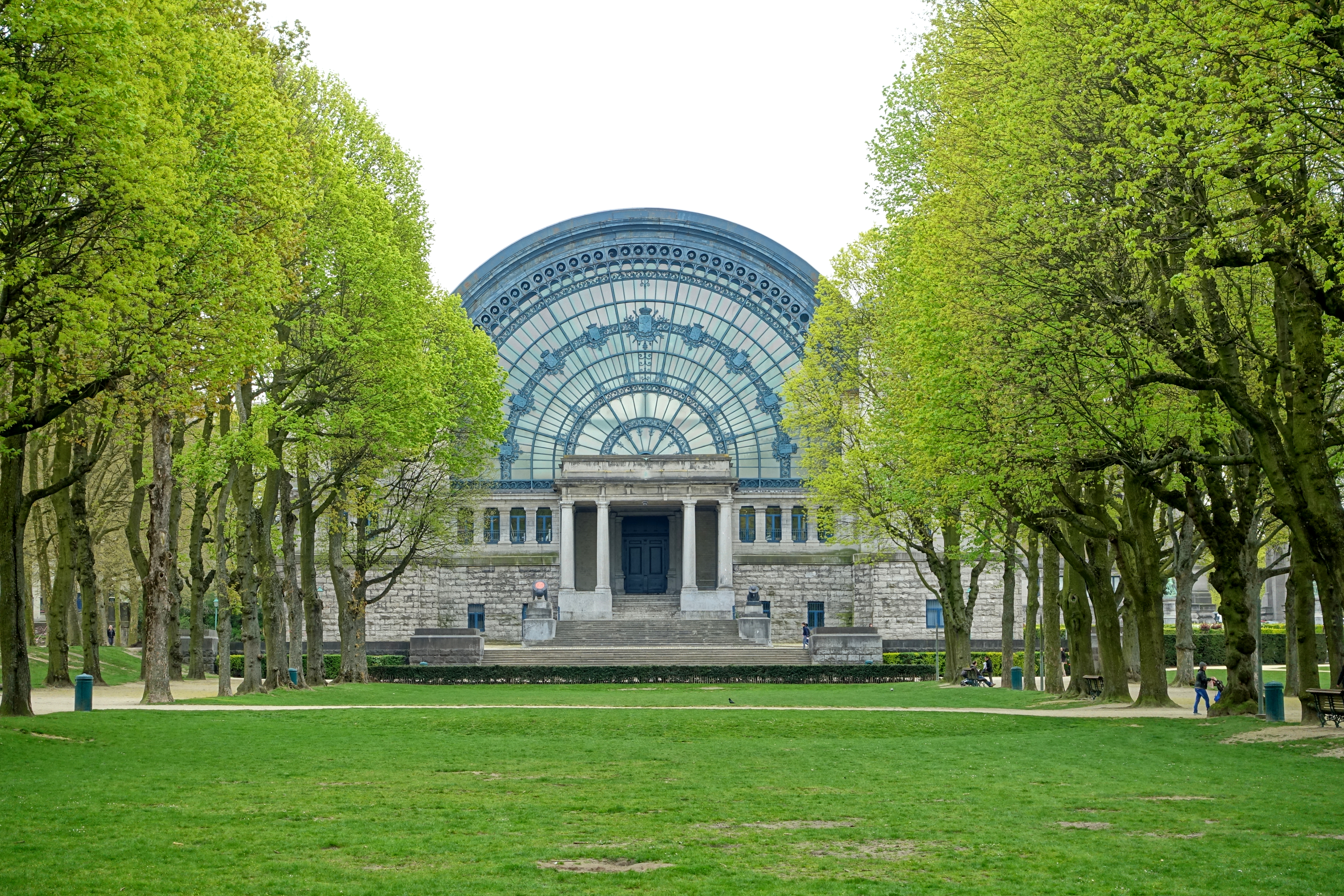 Northern Bordiau Hall - Cinquantenaire - Brussels, Belgium.